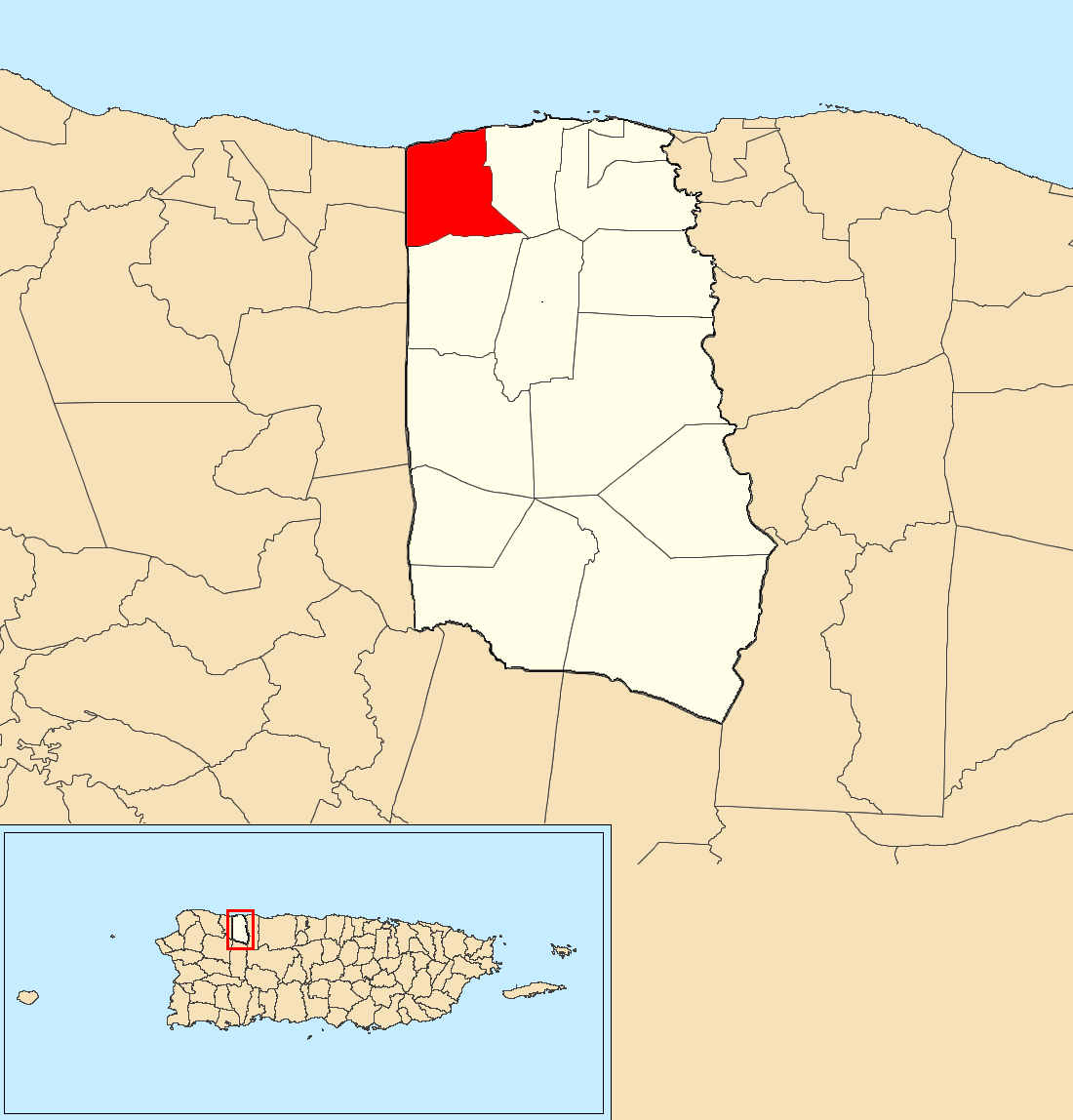 Yeguada, Camuy, Puerto Rico locator map